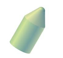 Conical Diamond Tip